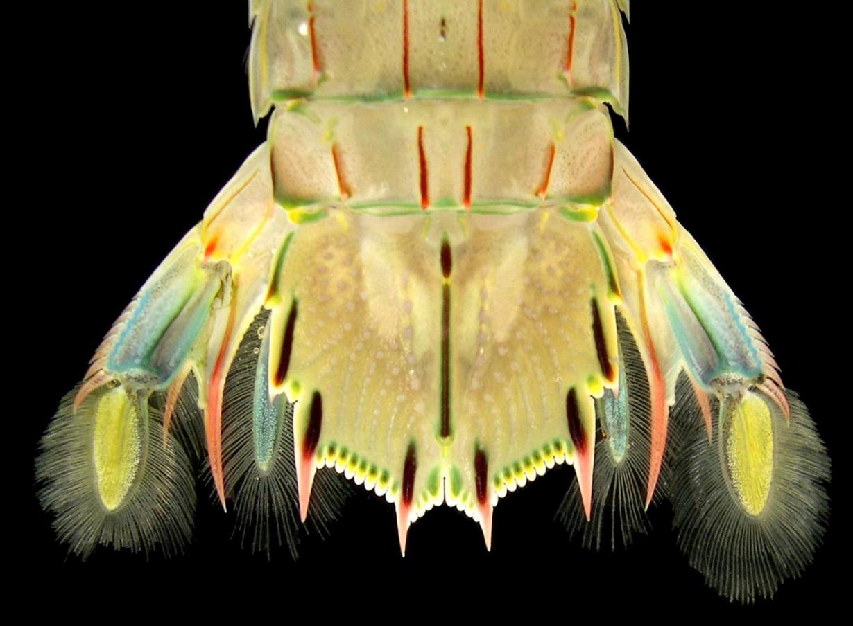 Telson and uropods of Oratosquilla oratoria (De Haan, 1844) (Crustacea: Stomatopoda: Squillidae) from Ehime Prefecture, Shikoku, Japan.